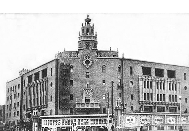 The Tōkyō Geijō Theatre in the pre-war time.